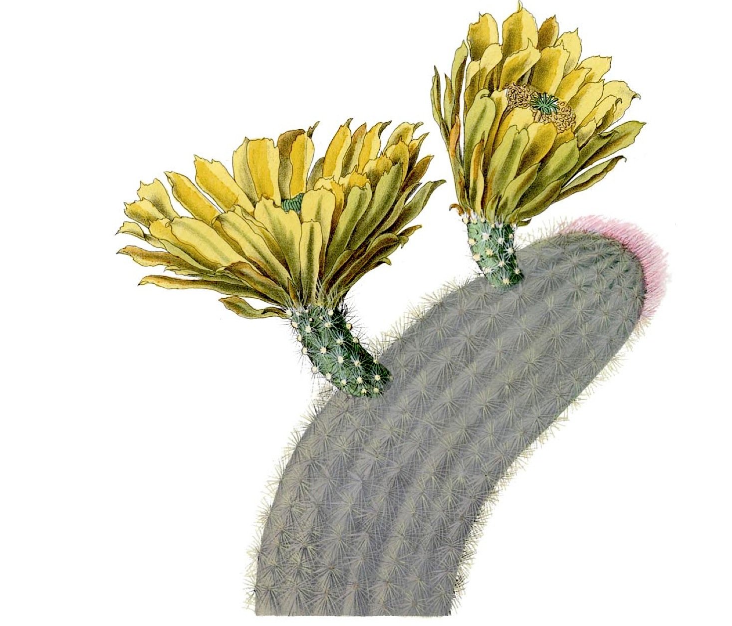 Echinocereus dasyacanthus